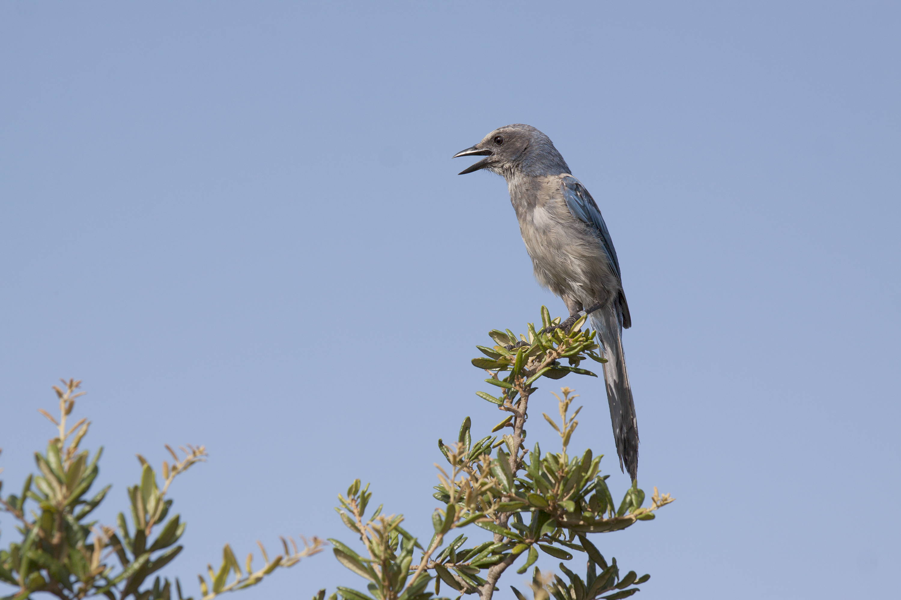 A Florida scrub jay perches in a tree in an area called Wilson's Corner in the Merritt Island National Wildlife Refuge (MINWR) near NASA's Kennedy Space Center in Florida. The bird is one of more than 330 native and migratory bird species, 25 mammals, 117 fishes and 65 amphibians and reptiles that call Kennedy and the wildlife refuge home.